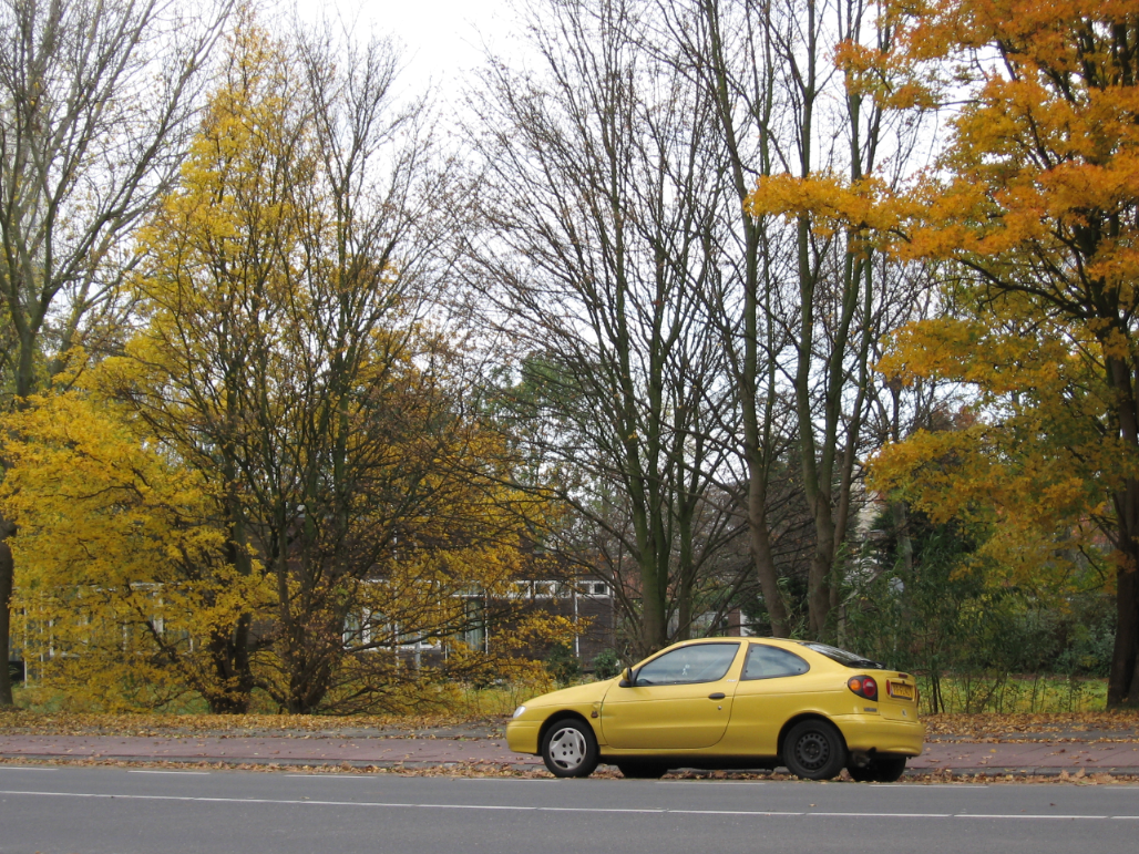 Yellow colors in nature and manmade object.